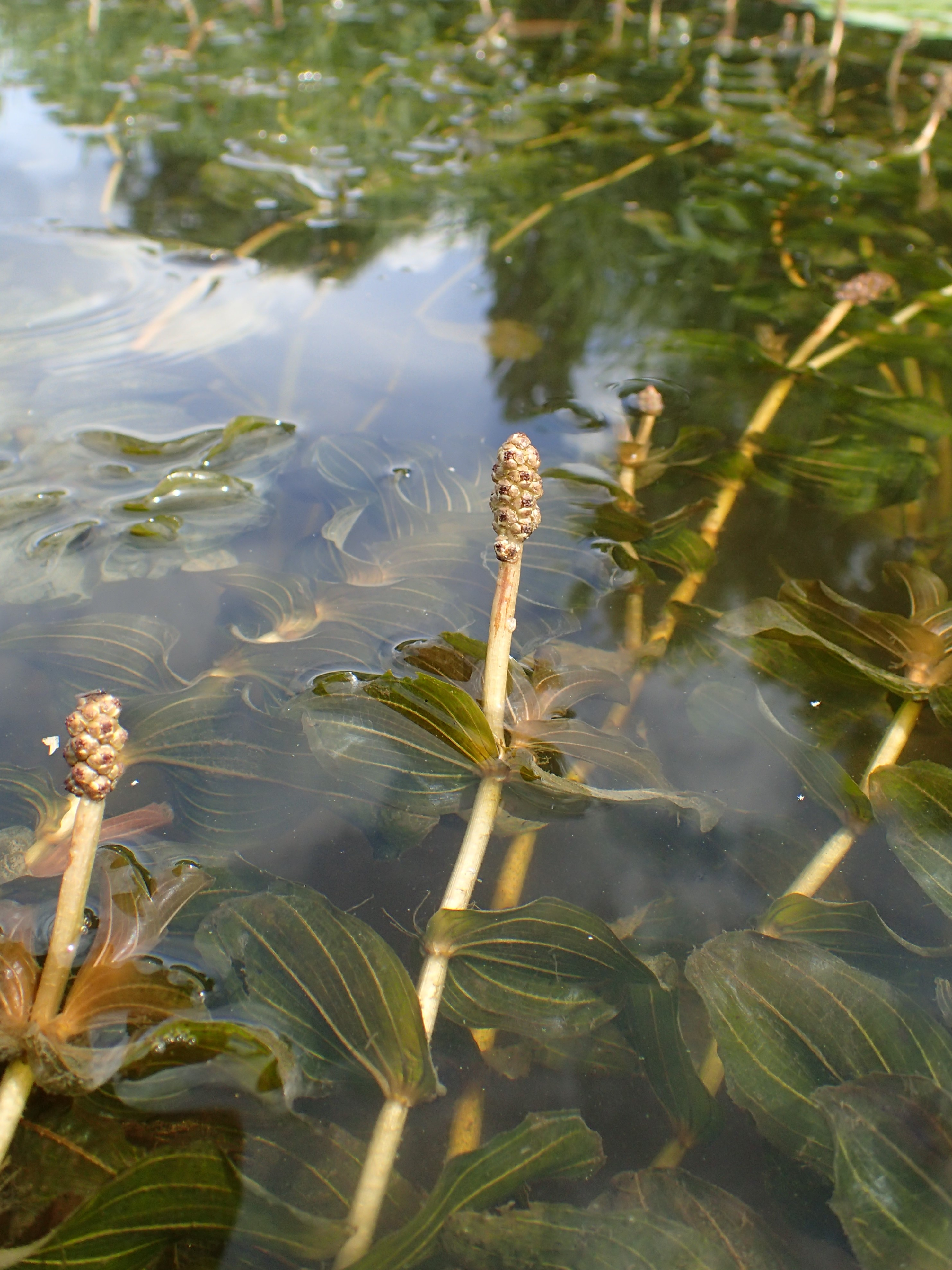 Potamogeton perfoliatus in Regalica (east arm of Oder river) in Szczecin Podjuchy, NW Poland